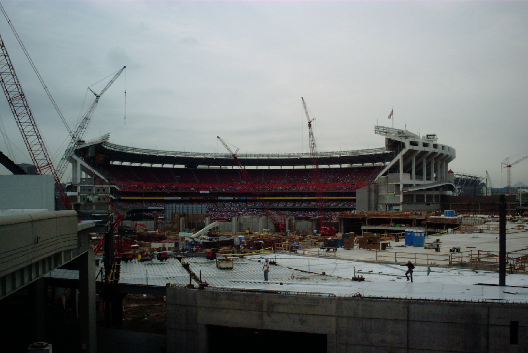 Cinergy Field in 2001